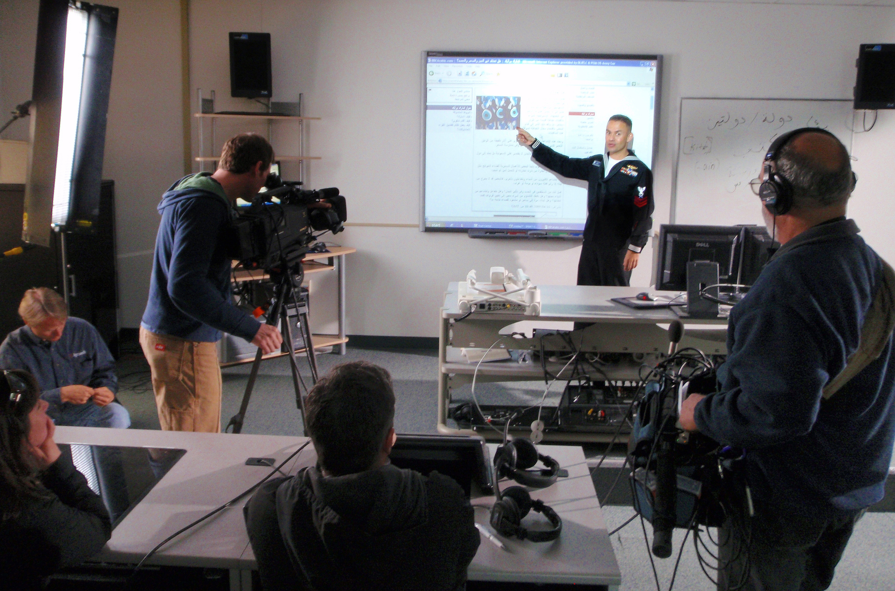 MONTEREY, Calif. (April 16, 2009) Discovery Channel Cinematographer Tom Inskeep, left, videotapes Cryptologic Technician (Interpretive) 1st Class Angel Diaz, assigned to the Center for Information Dominance, Detachment Monterey, in a classroom at the Defense Language Institute at the Presidio in Monterey, Calif. Diaz, an Arabic language instructor, is being filmed by the Discovery crew for one of 12 episodes or "vignettes" that will highlight Sailors during an upcoming Discovery Channel three-hour mini-series about the Navy. (U.S. Navy photo by Gary Nichols/Released)